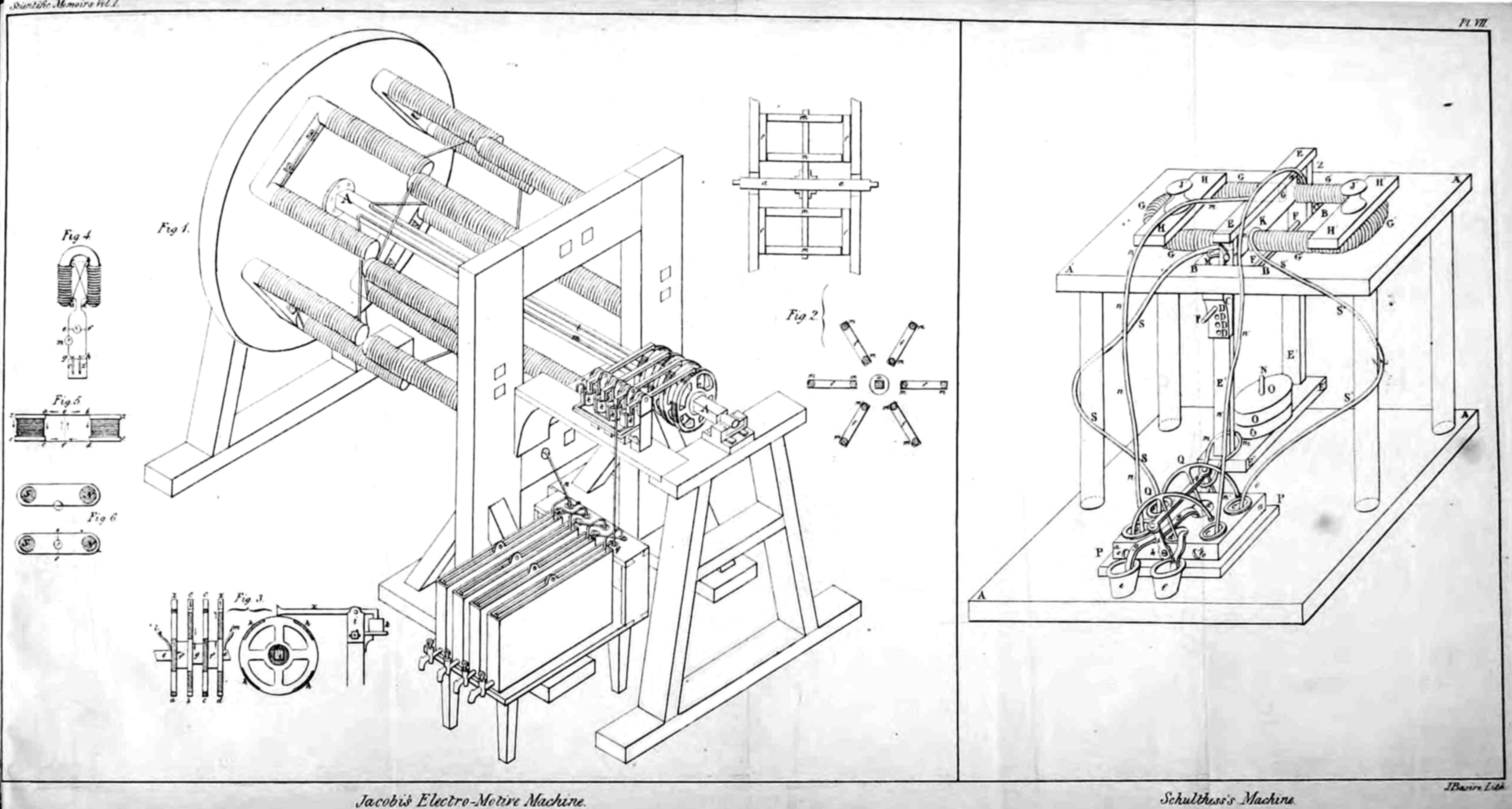 Diagrams of the early electric motors of Moritz von Jacobi and Rudolph Schulthess. Plate 7 from Richard Taylor's Scientific Memoirs.